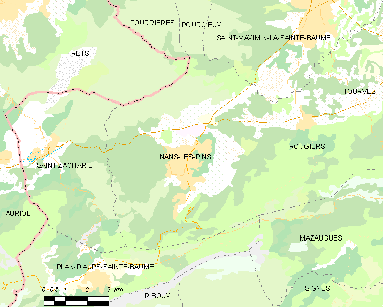 Map of French municipality Nans-les-Pins